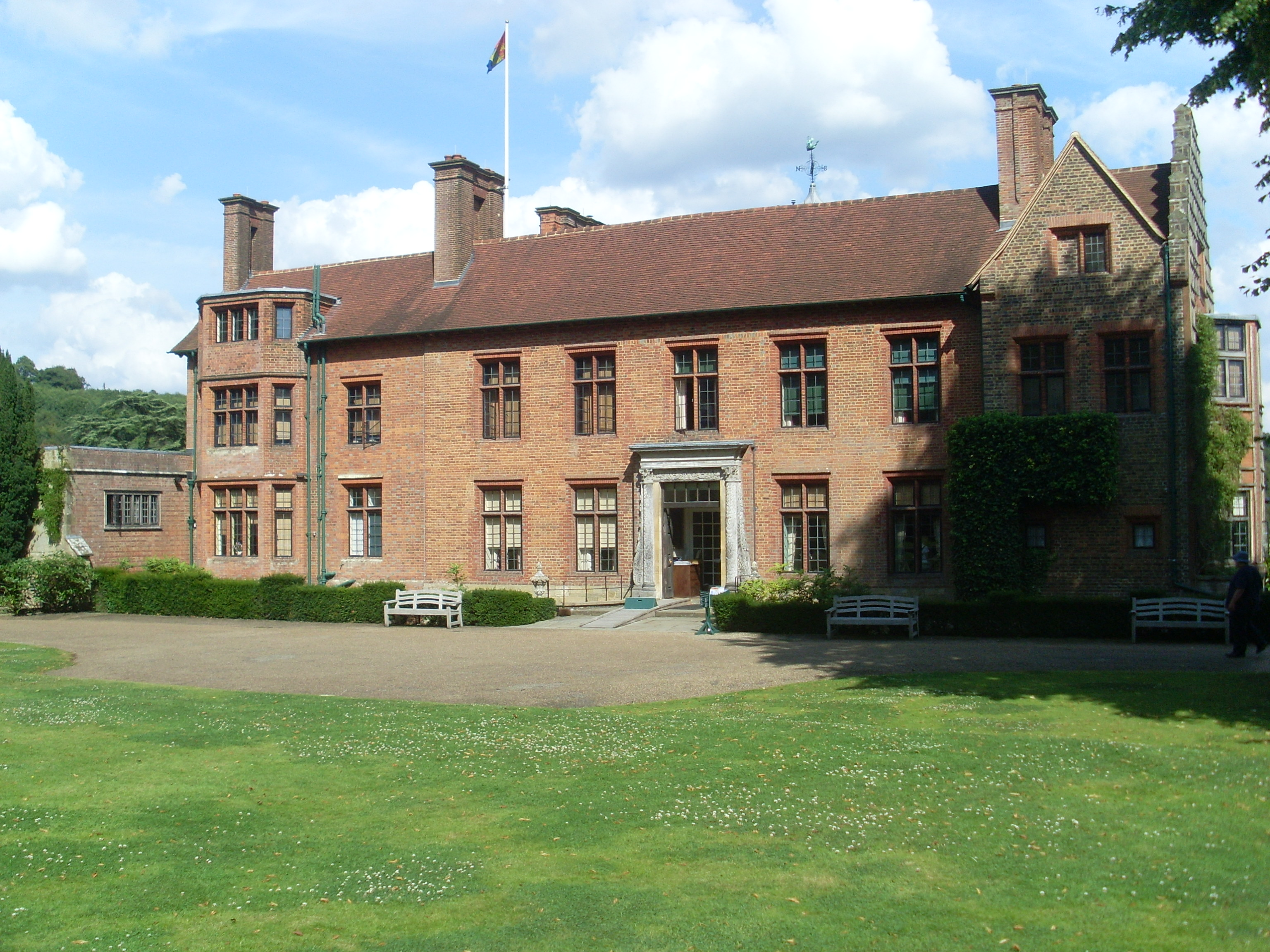 Chartwell - the Entrance front